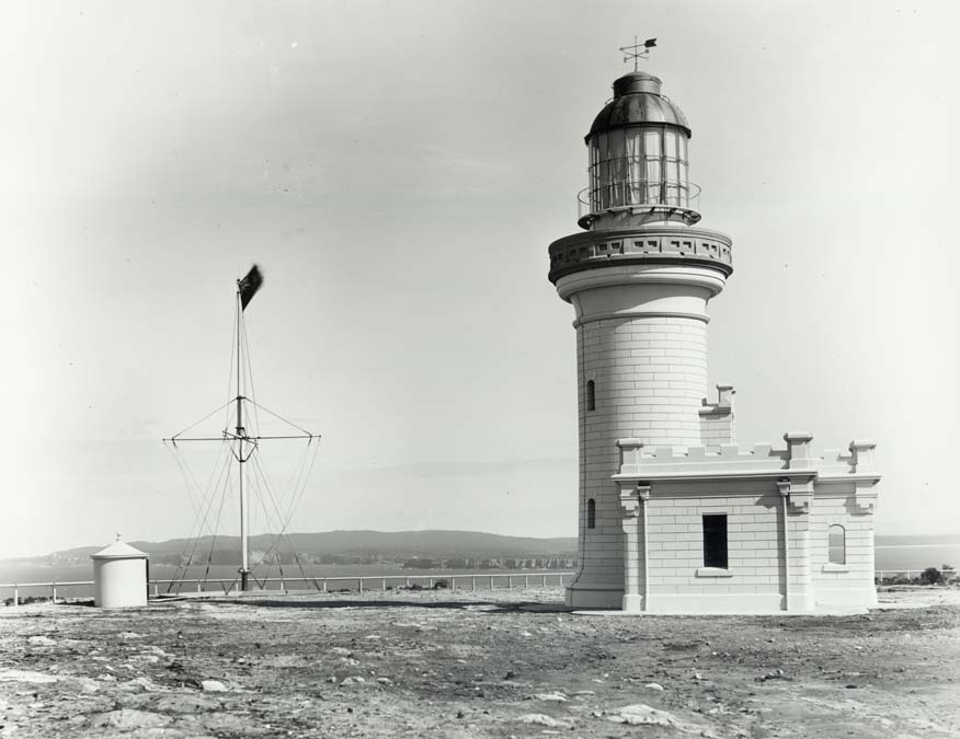 Point Perpendicular Lighthouse, Jervis Bay (NSW), 1917 Date based on this version